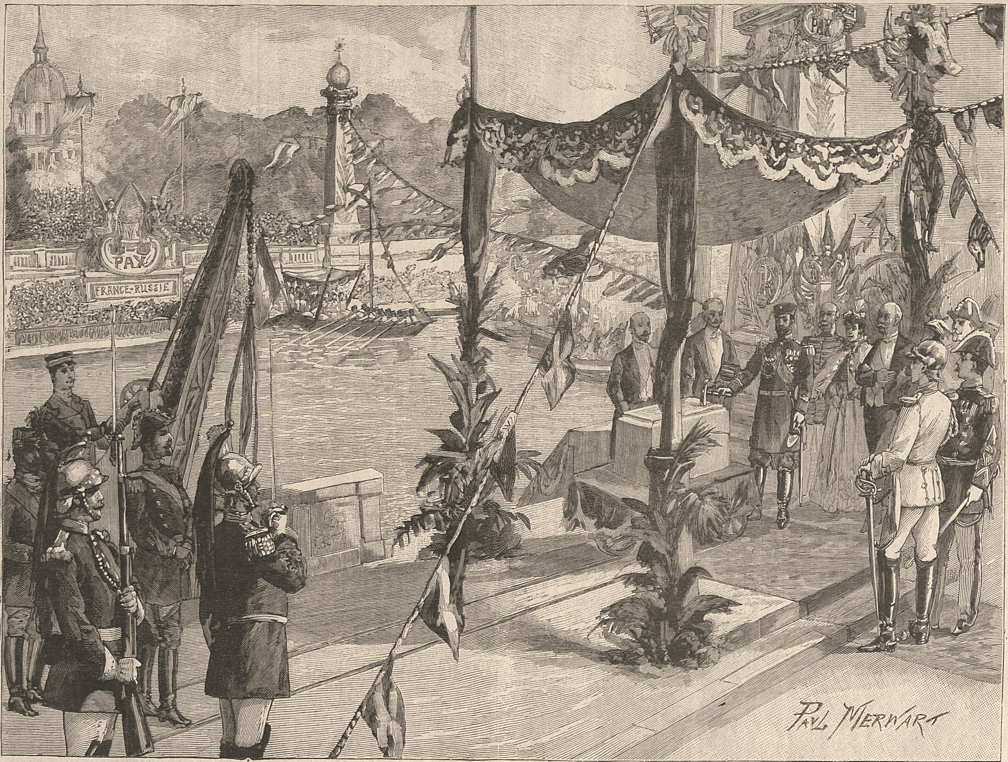 Laying the first stone of the Alexandre III bridge in Paris, 1896 - illustration by Paul Merwart. Published in Le Progrès Illustré, fasc. numero 305